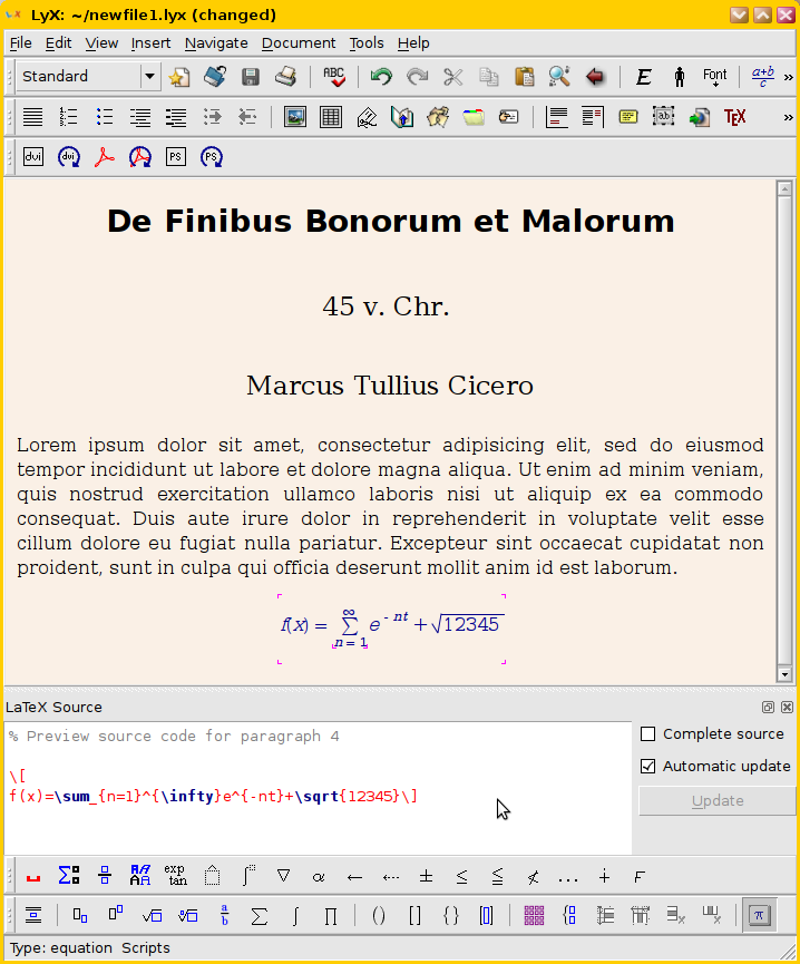 Screenshot of lorem ipsum with LyX.